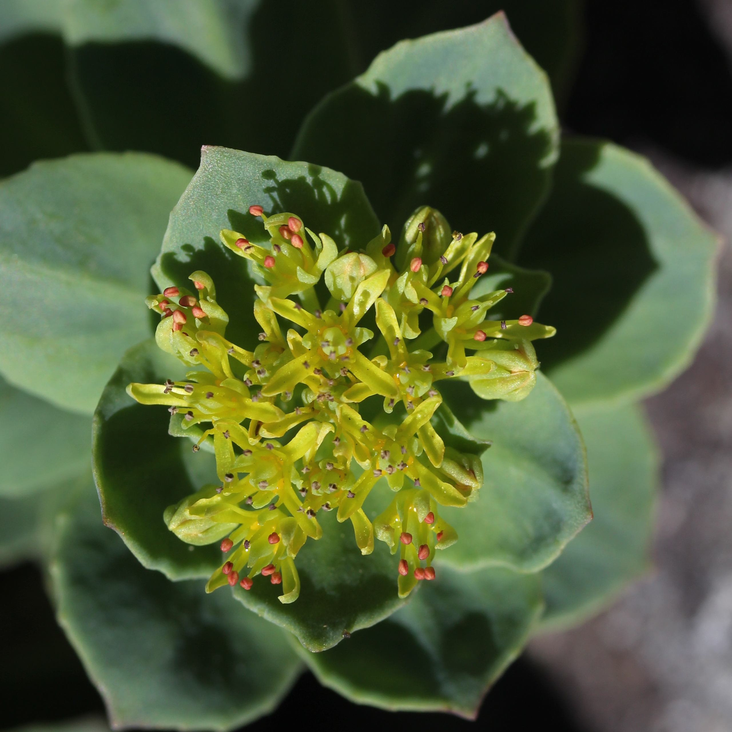 Rhodiola rosea, male, in Mount Hijiri, Iida, Nagano prefecture, Japan.